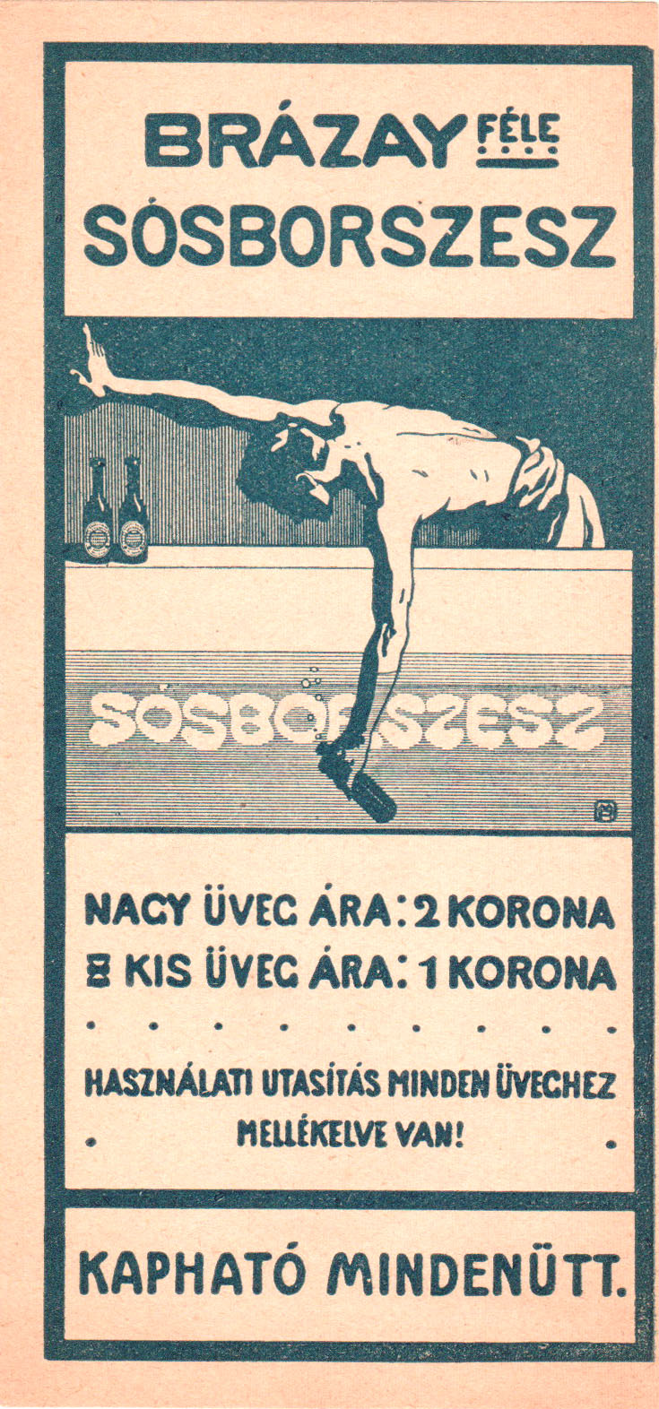 The publicity of the Brázay-alcohol